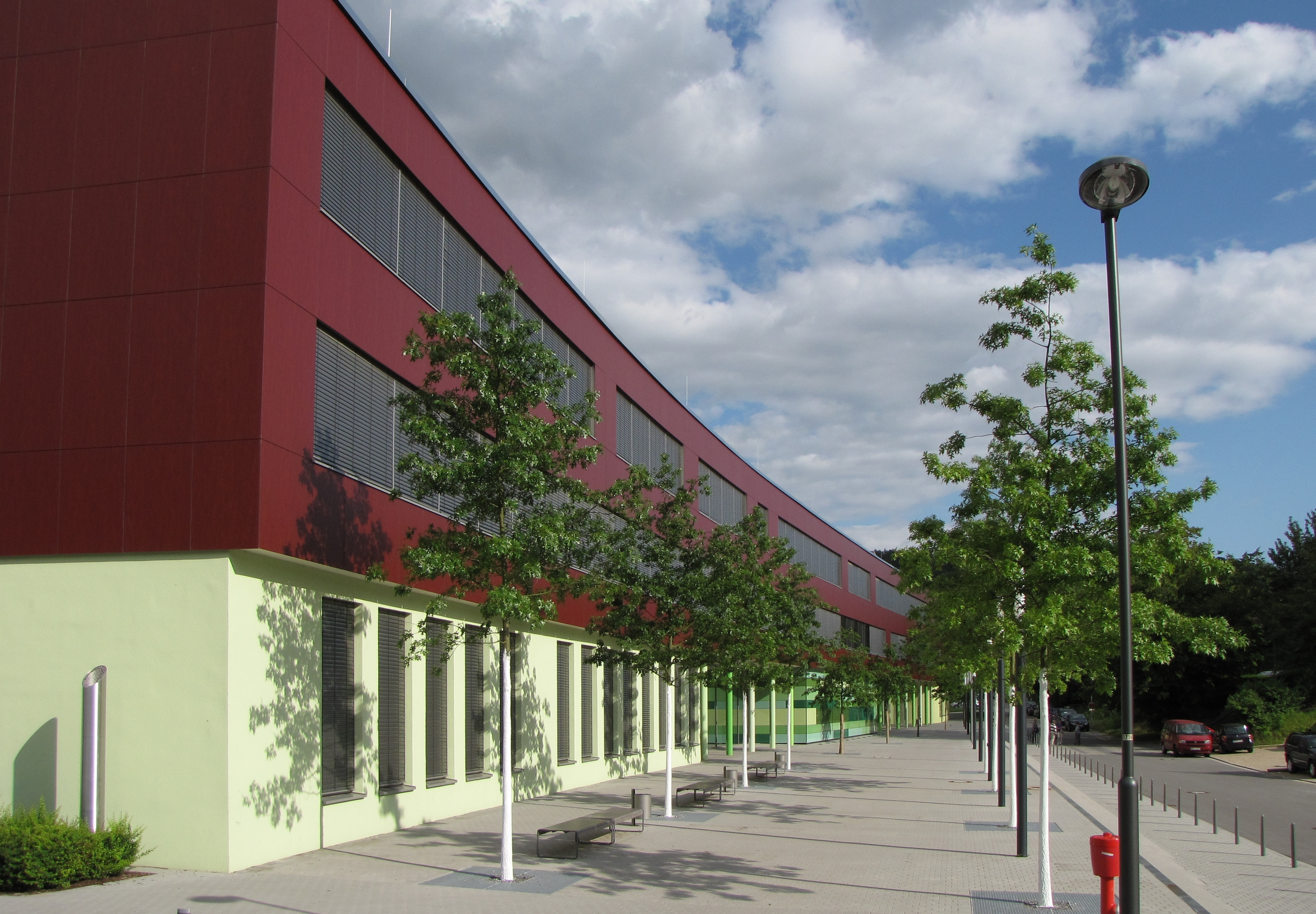 This is the School Center Neckargemünd. It includes the "Gymnasium Neckargemünd" and the "Realschule Neckargemünd". The view is from the train station.